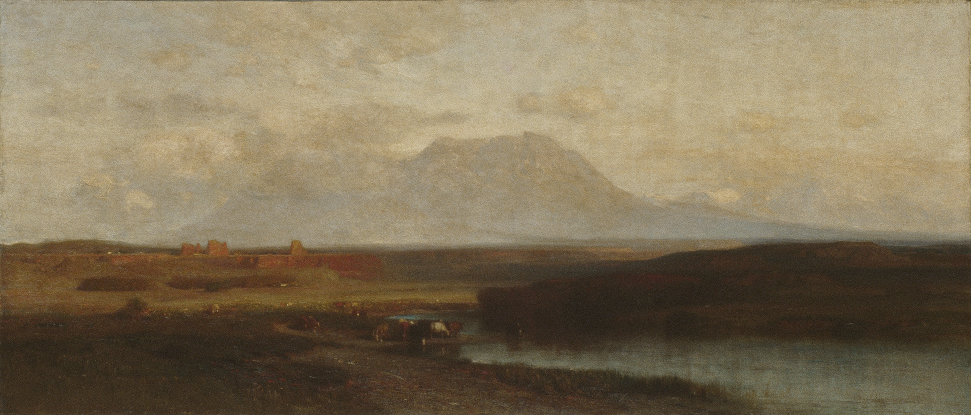 Spanish Peaks, Southern Colorado, Late Afternoon